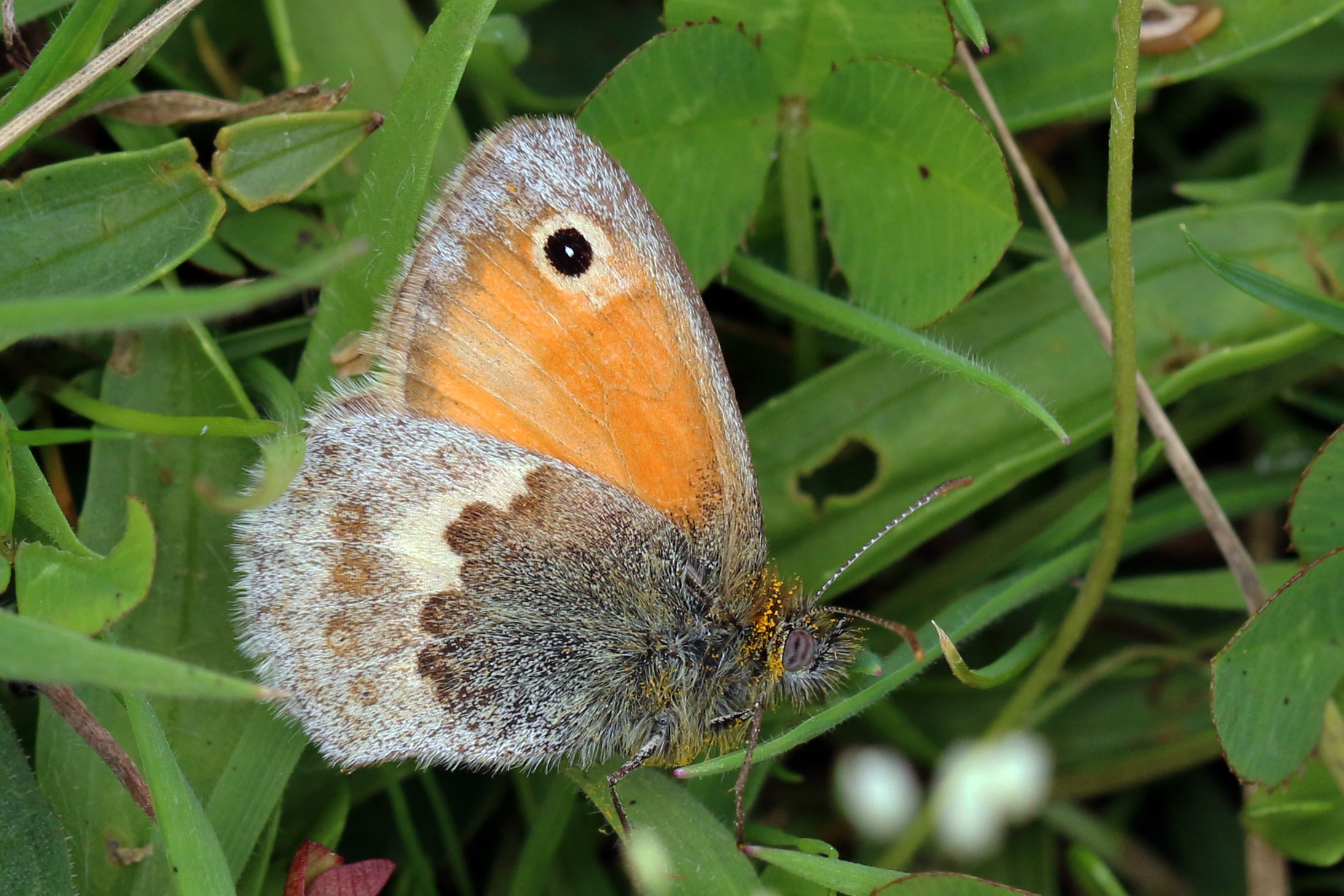 Small heath butterfly (Coenonympha pamphilus), Aston Rowant NNR, Oxfordshire